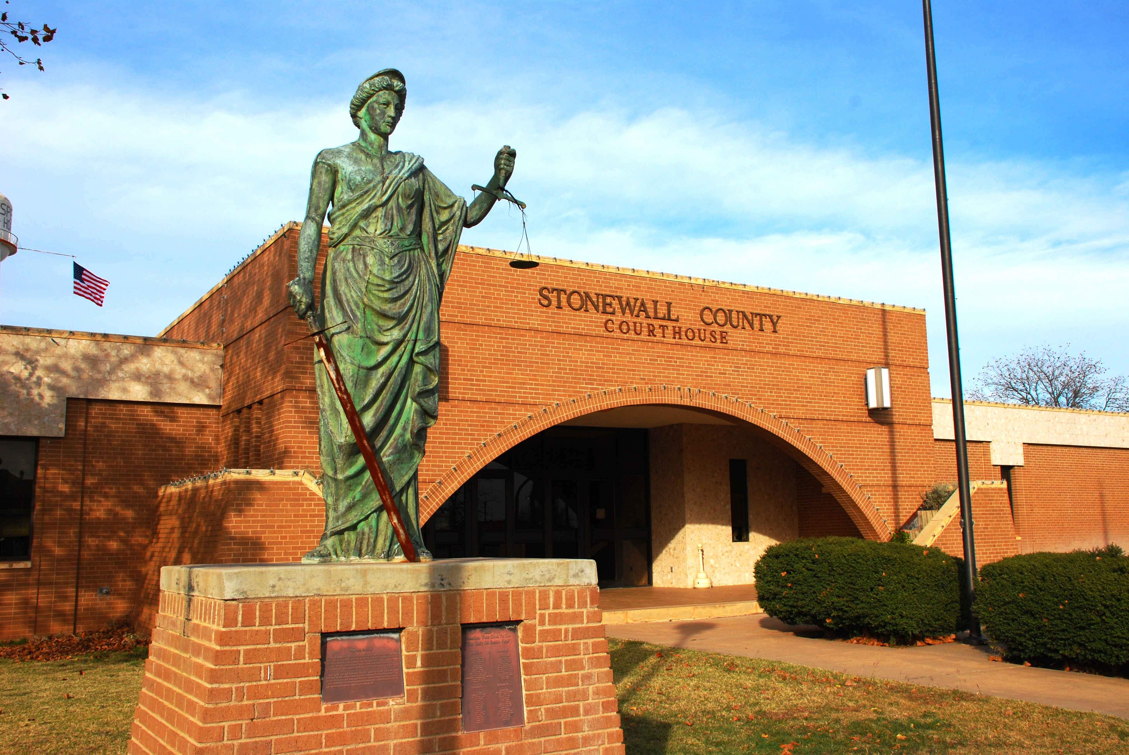 The Stonewall County Courthouse in Aspermont, Texas.